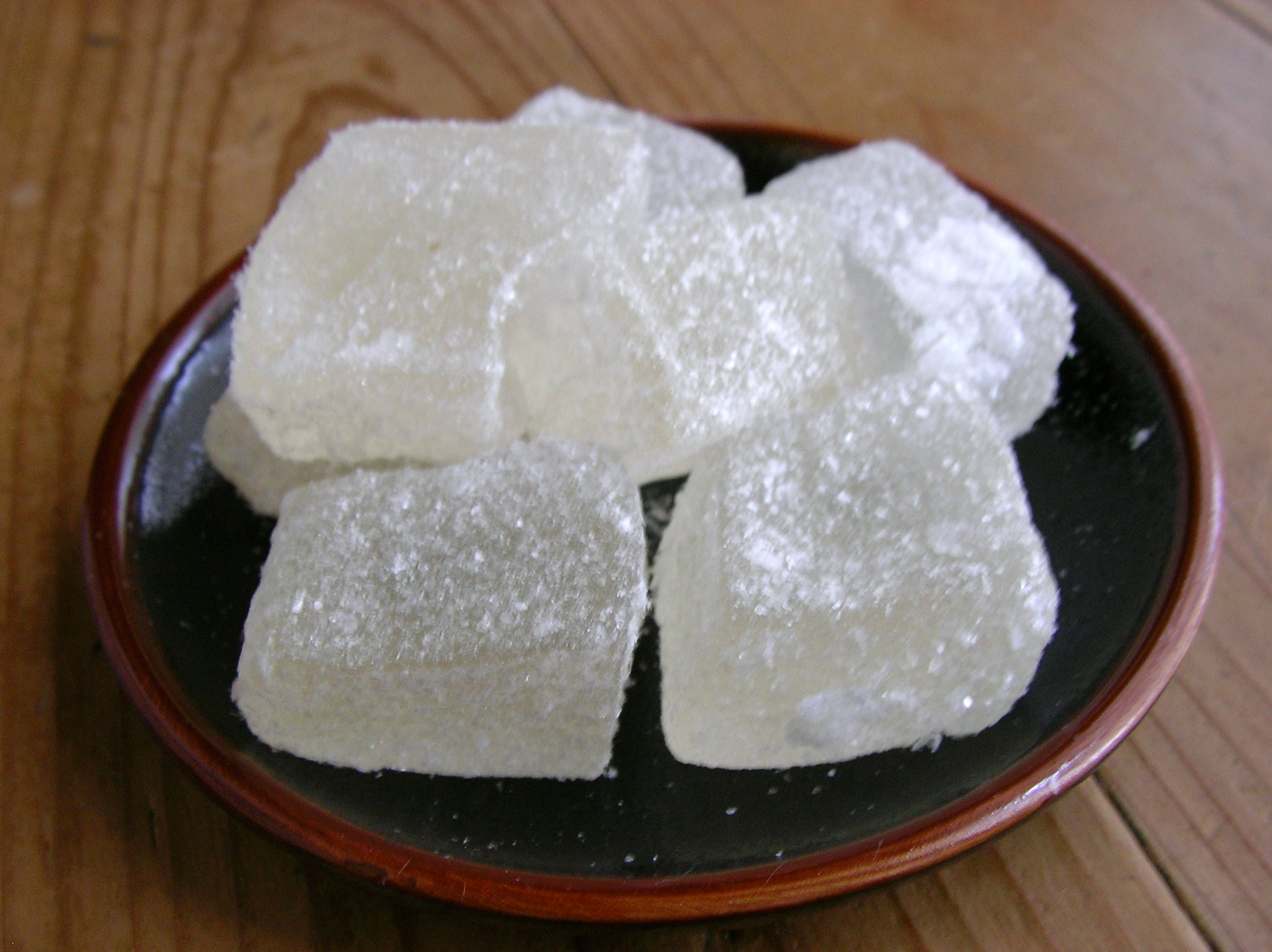 "Kanten Korimochi", a traditional Japanese confectionery (wagashi) which is made of kanten, mizuame and glutinous rice flour. Producer: Ohara Seika (Iida city, Nagano prefecture, Japan)